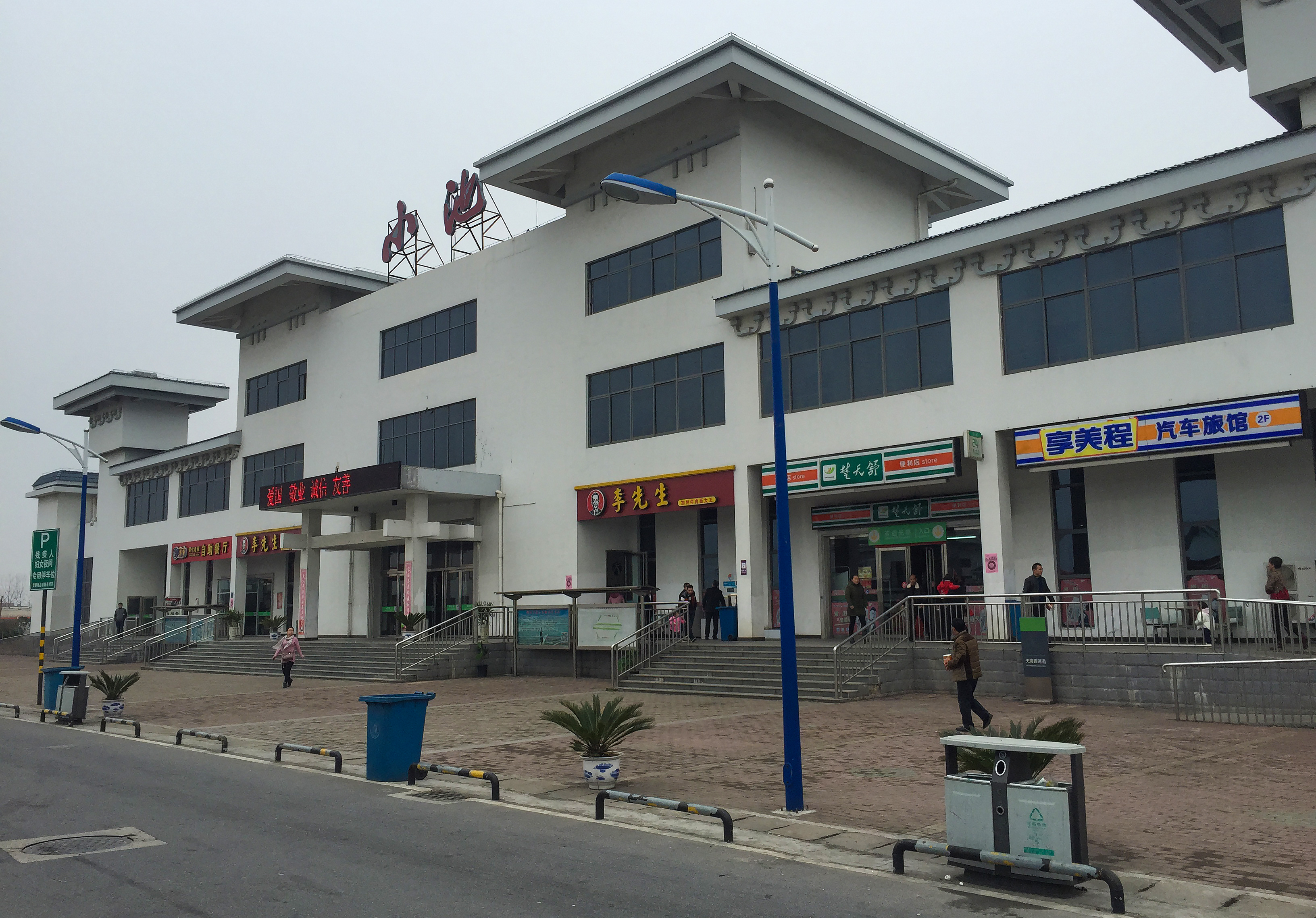 Didn't visit Konglong and Xiaochikou stations due to smog.